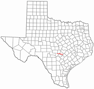 Adapted from Wikipedia's TX county maps